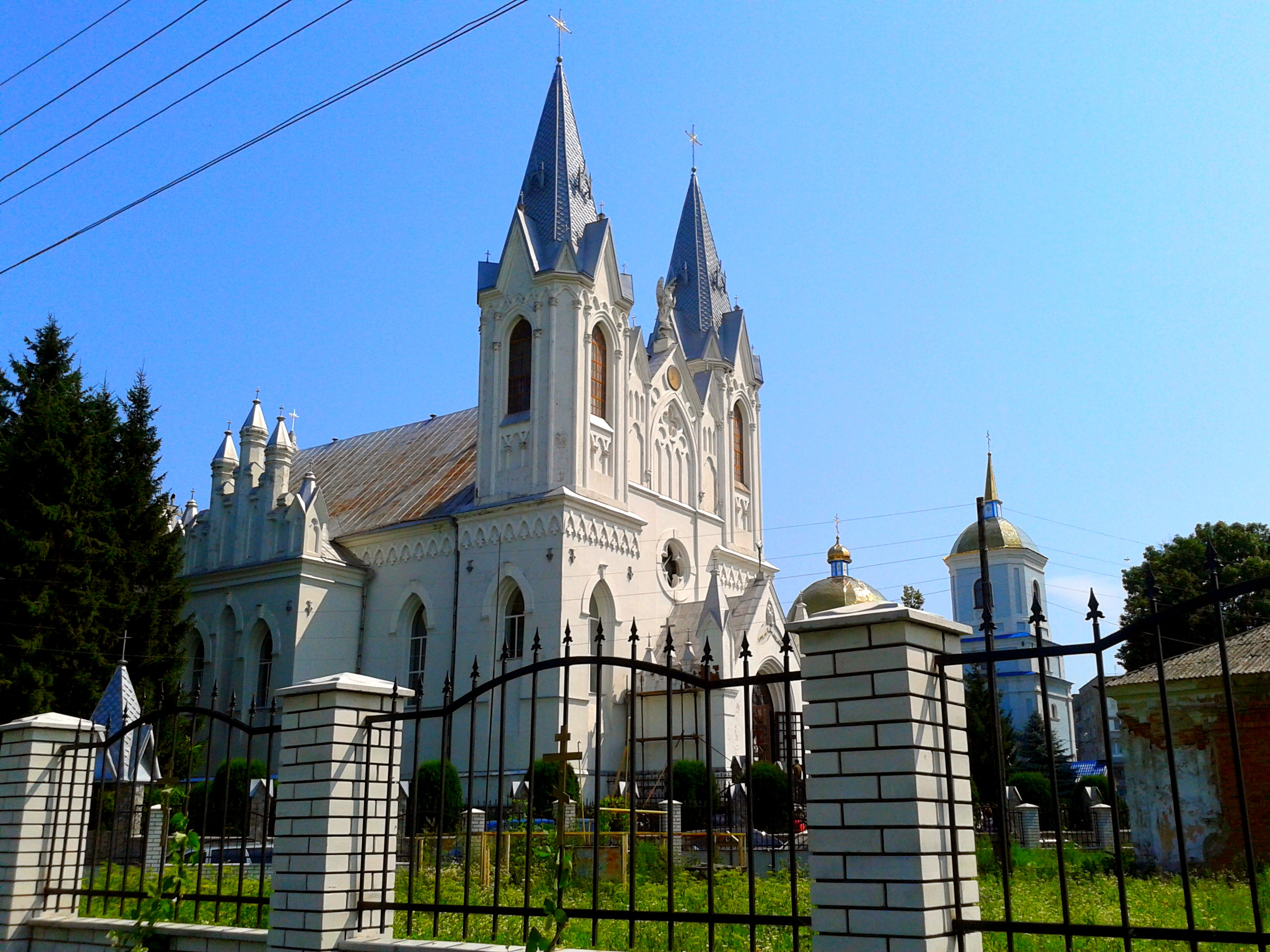 Wikimedia Roman Catholic Church and Orthodox Church Town of Bar Vinnytsia Region State of Ukraine Photograph by Viktor O. Ledenyov 26072014 (10)